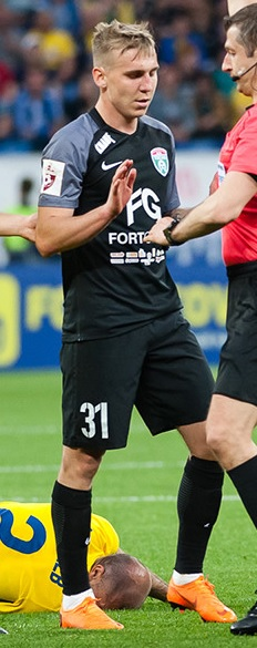 Aleksandr Makarov with FC Tosno in a game against FC Rostov.